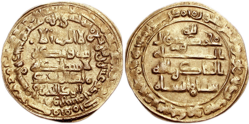 Coin of Abu Kalijar, an Buyid Emir.